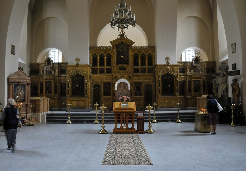 It was built in 1913 to commemorate the 300th anniversary of the Romanov Dynasty. It was built by I. Kolesnikov and incorporates the Rostov and Suzdal architectural styles.